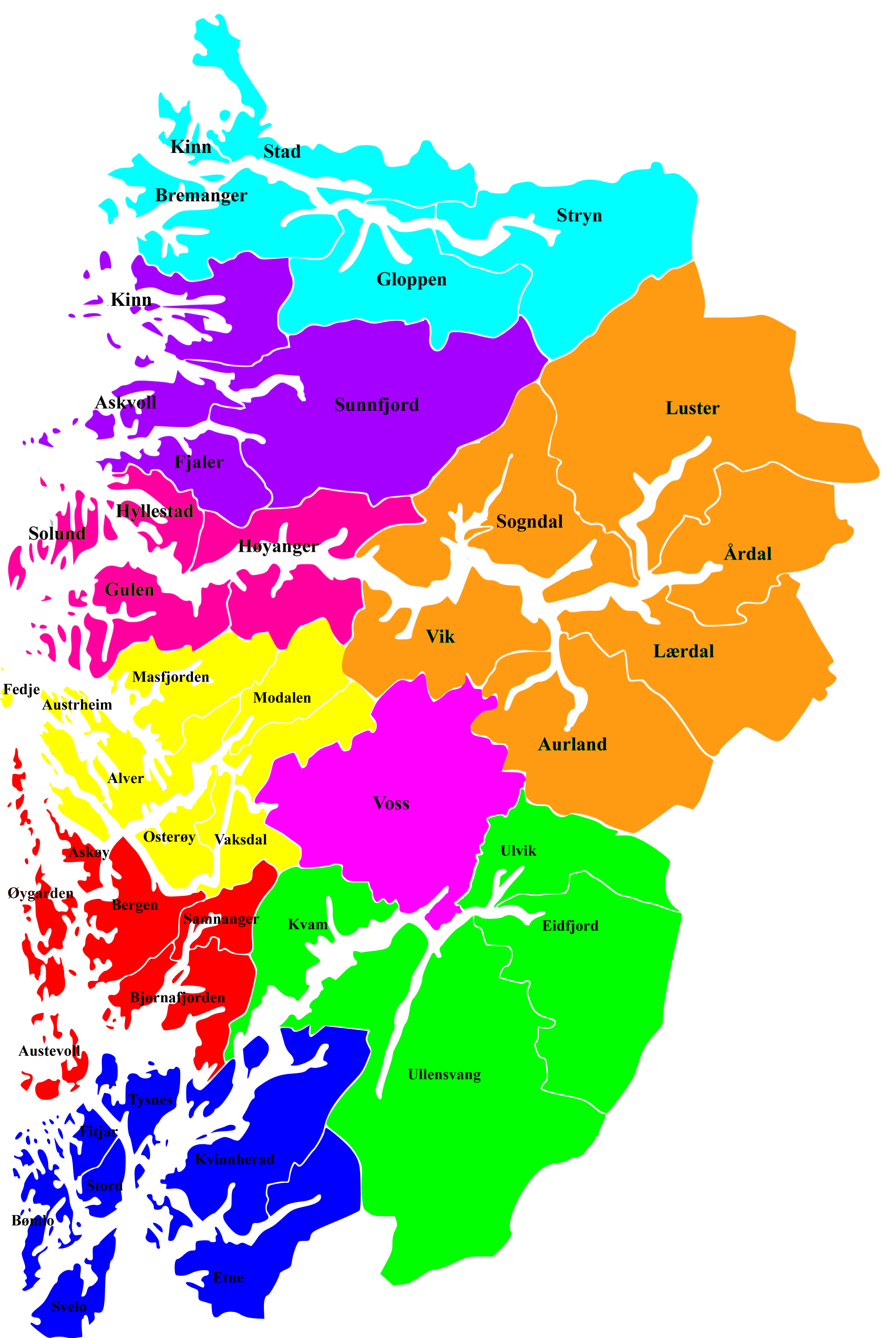 Remade map of Hordaland and Sogn og Fjordane with new municipality combinations and color schemes